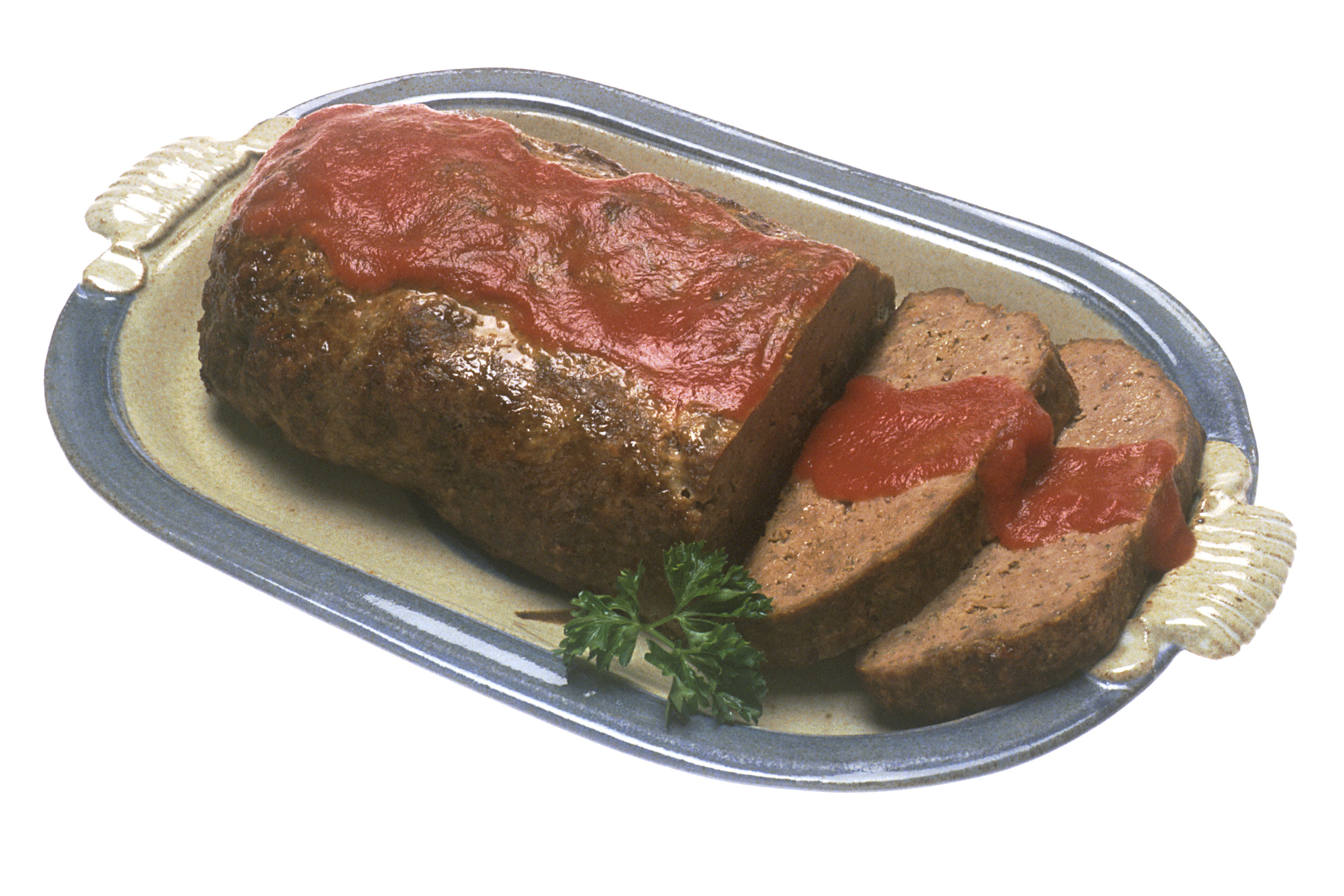 Title Meatloaf Description A plate of whole meatloaf garnished with a sauce on top. Topics/Categories Food and Drink Type Color, Photo Source National Cancer Institute